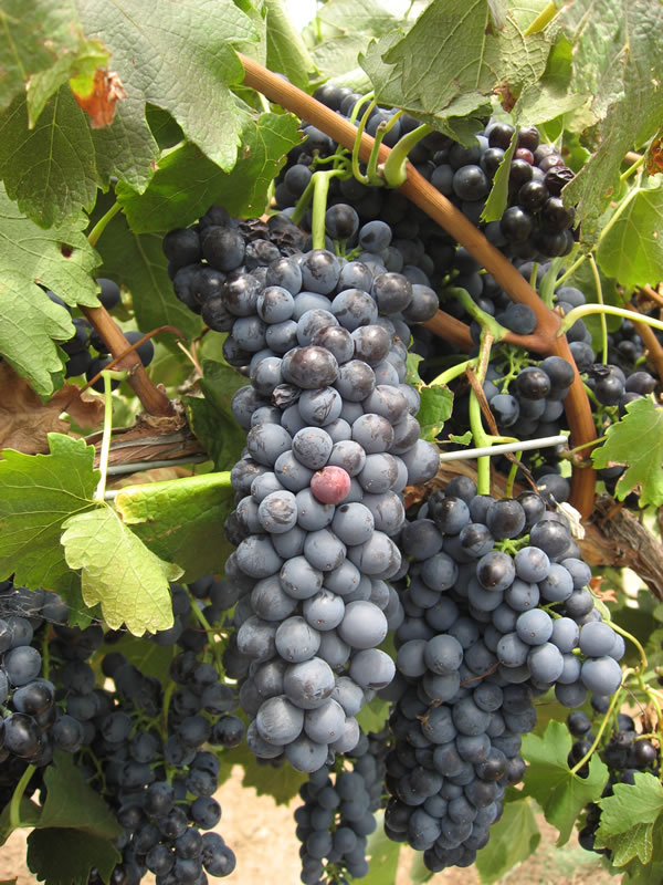 Shiraz/Syrah grapes growing in the Australian wine region of the Hunter Valley in New South Wales